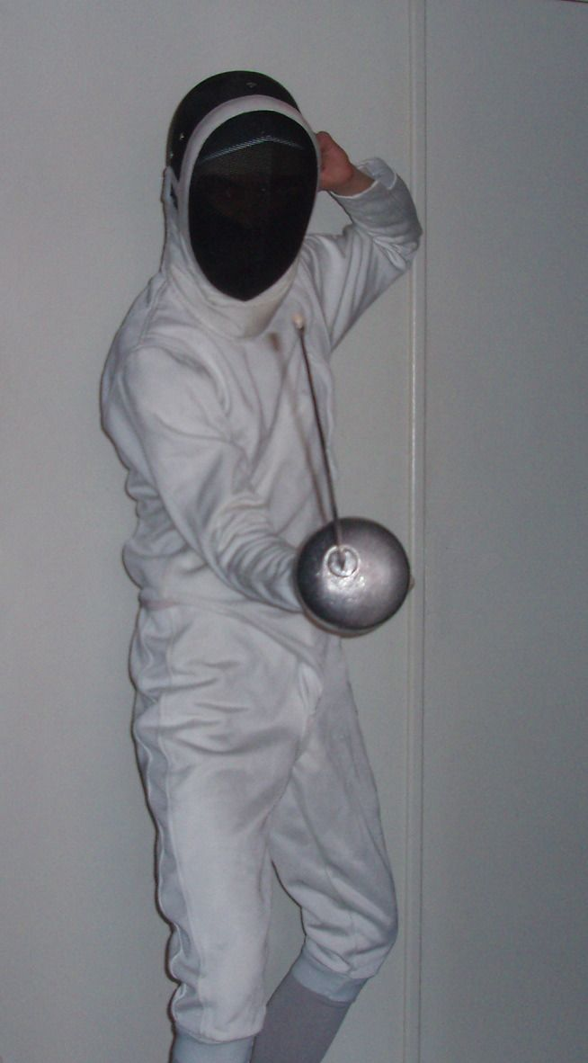 Forth position in Fencing (Quarte)